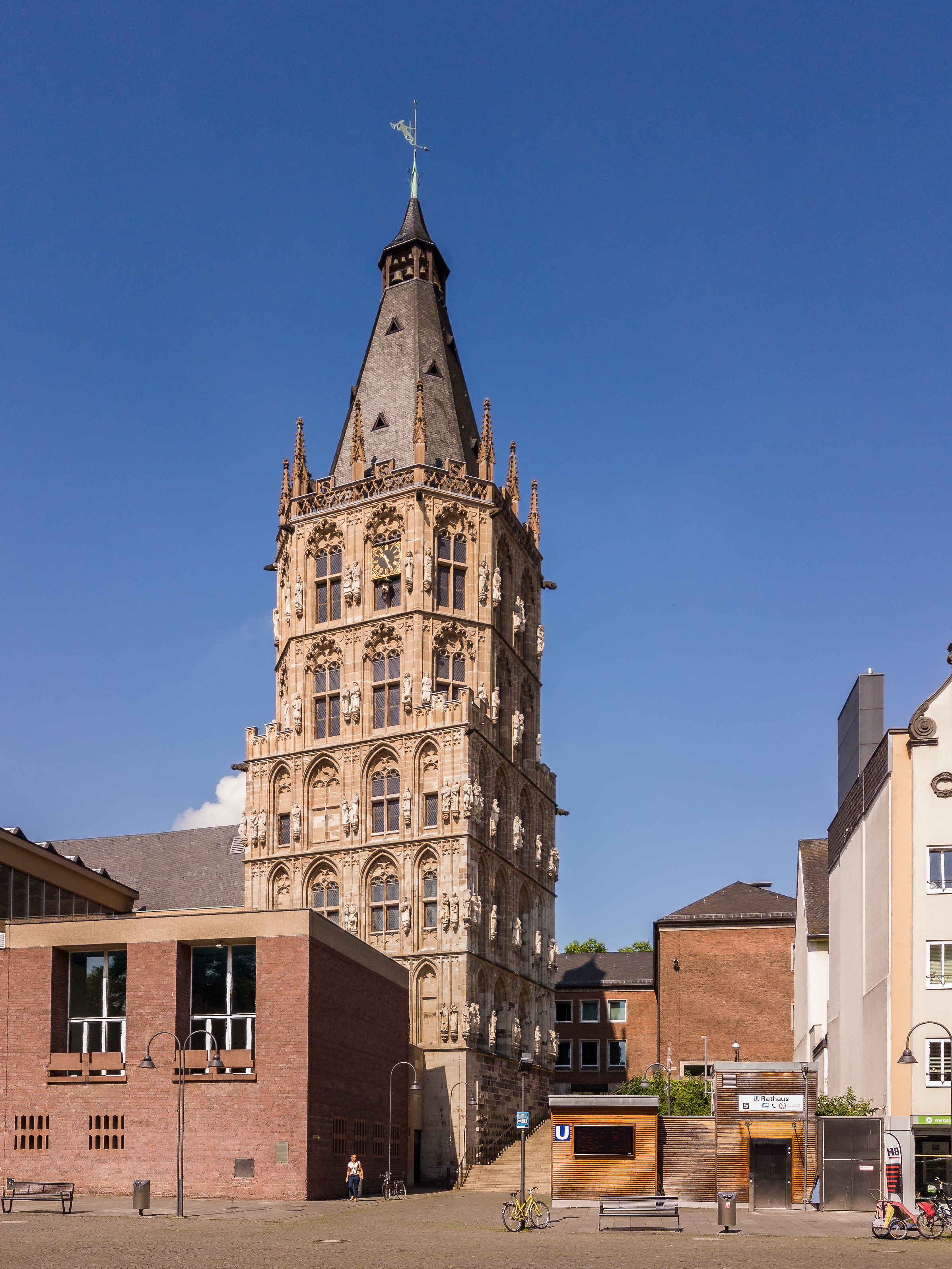 Tower of the Historic Town Hall, Cologne, Germany.